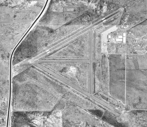 USGS digital orthophoto of Coolidge Municipal Airport in Coolidge, Pinal County, Arizona, United States